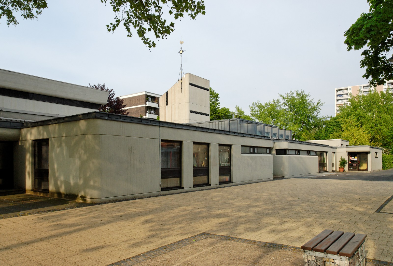 Saint Teresa in Düsseldorf-Garath, Germany